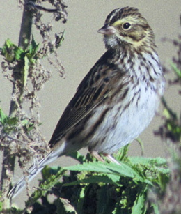 Savannah Sparrow public domain from USFWS.